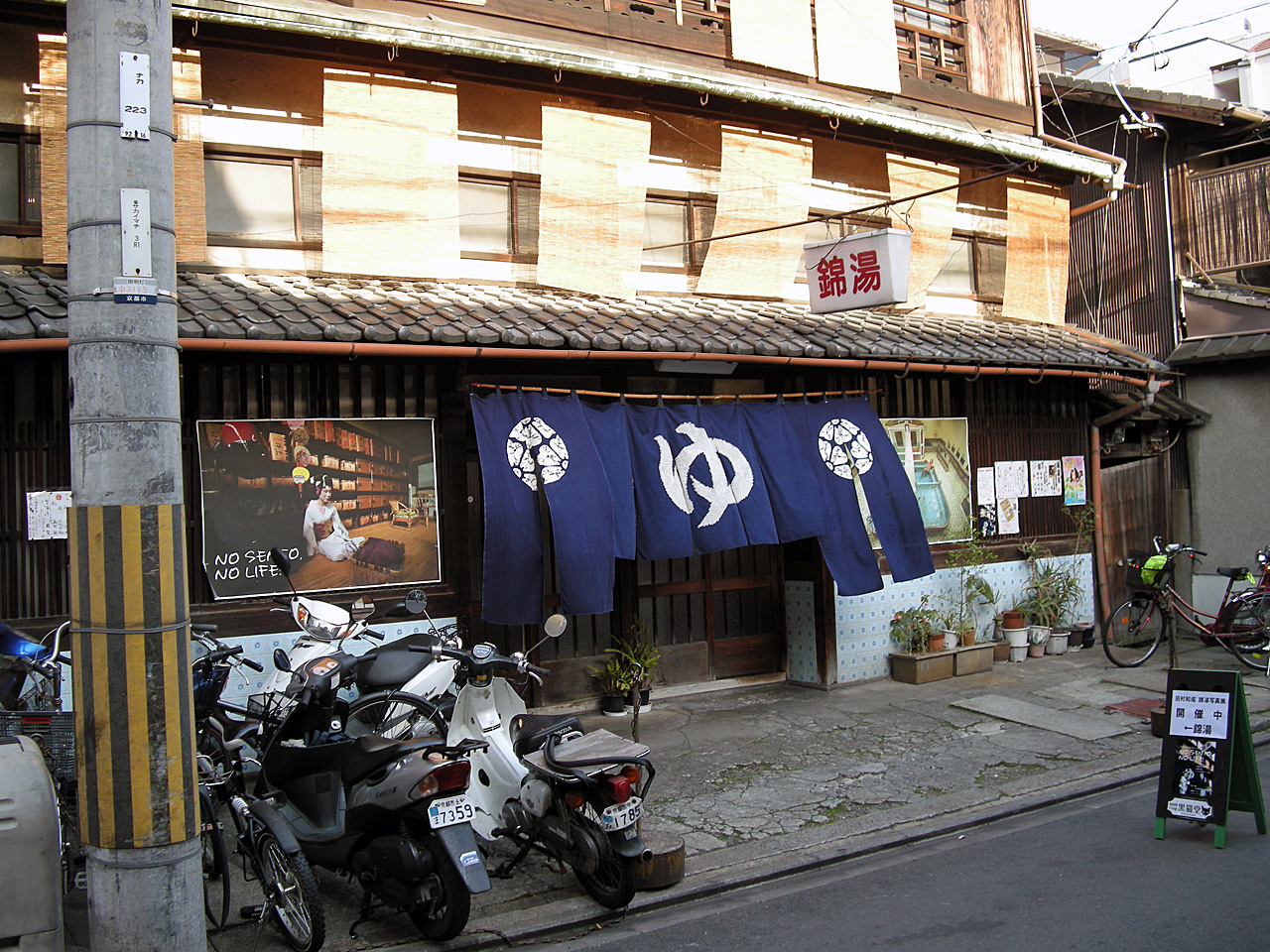 Sentō in Kyoto